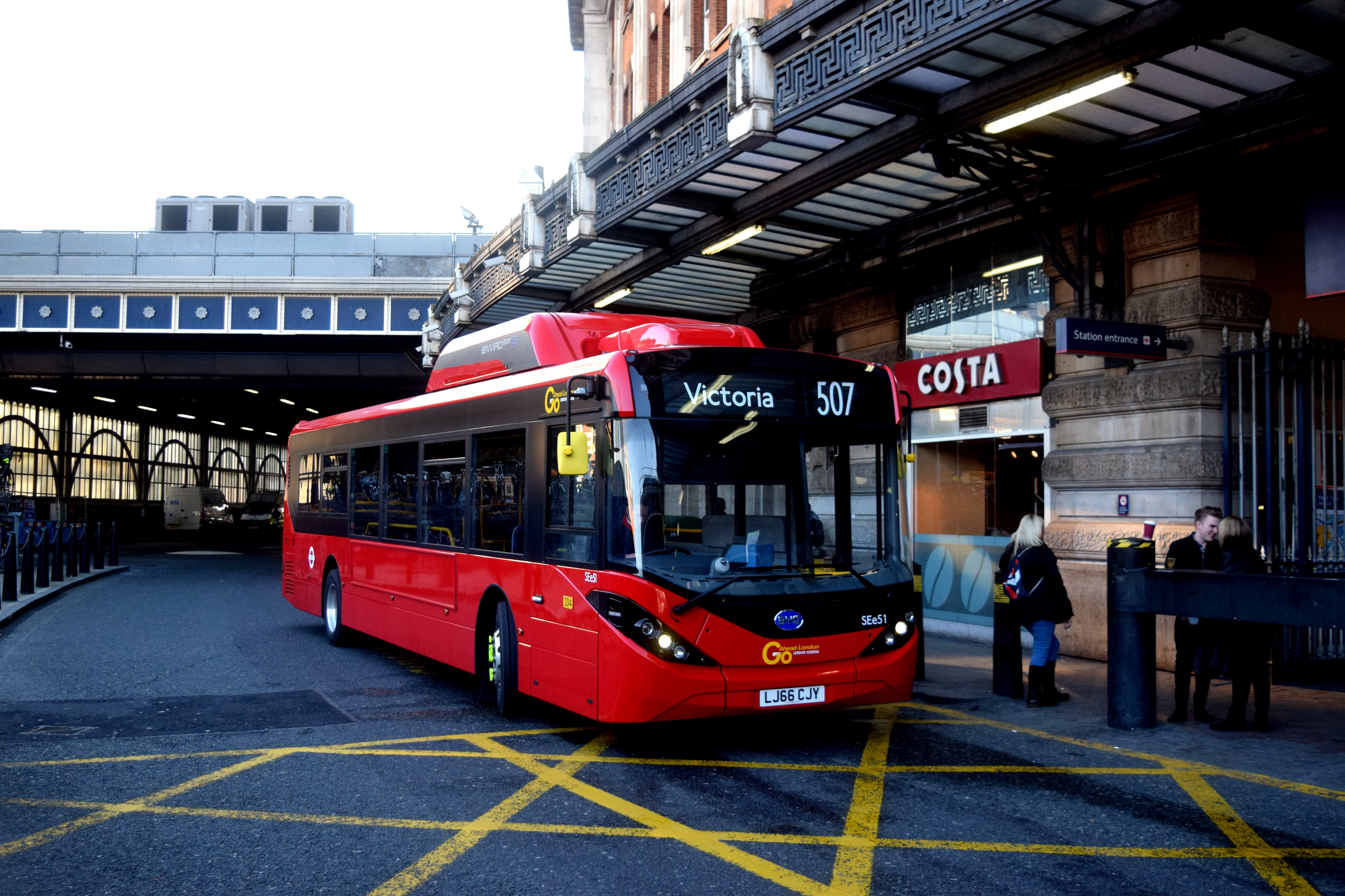 London General Alexander Dennis Enviro200 MMC bodied BYD K9 on route 507 at Waterloo station in 2017